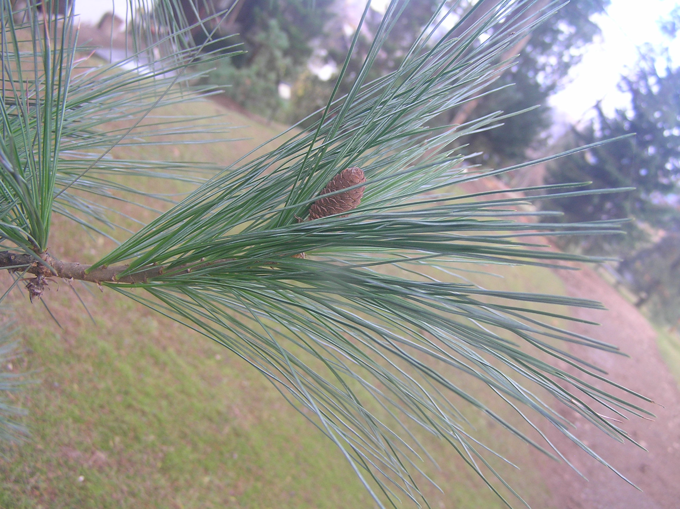 Pinus ayacahuite, cultivated in the Czech Republic, arboretum Žampach